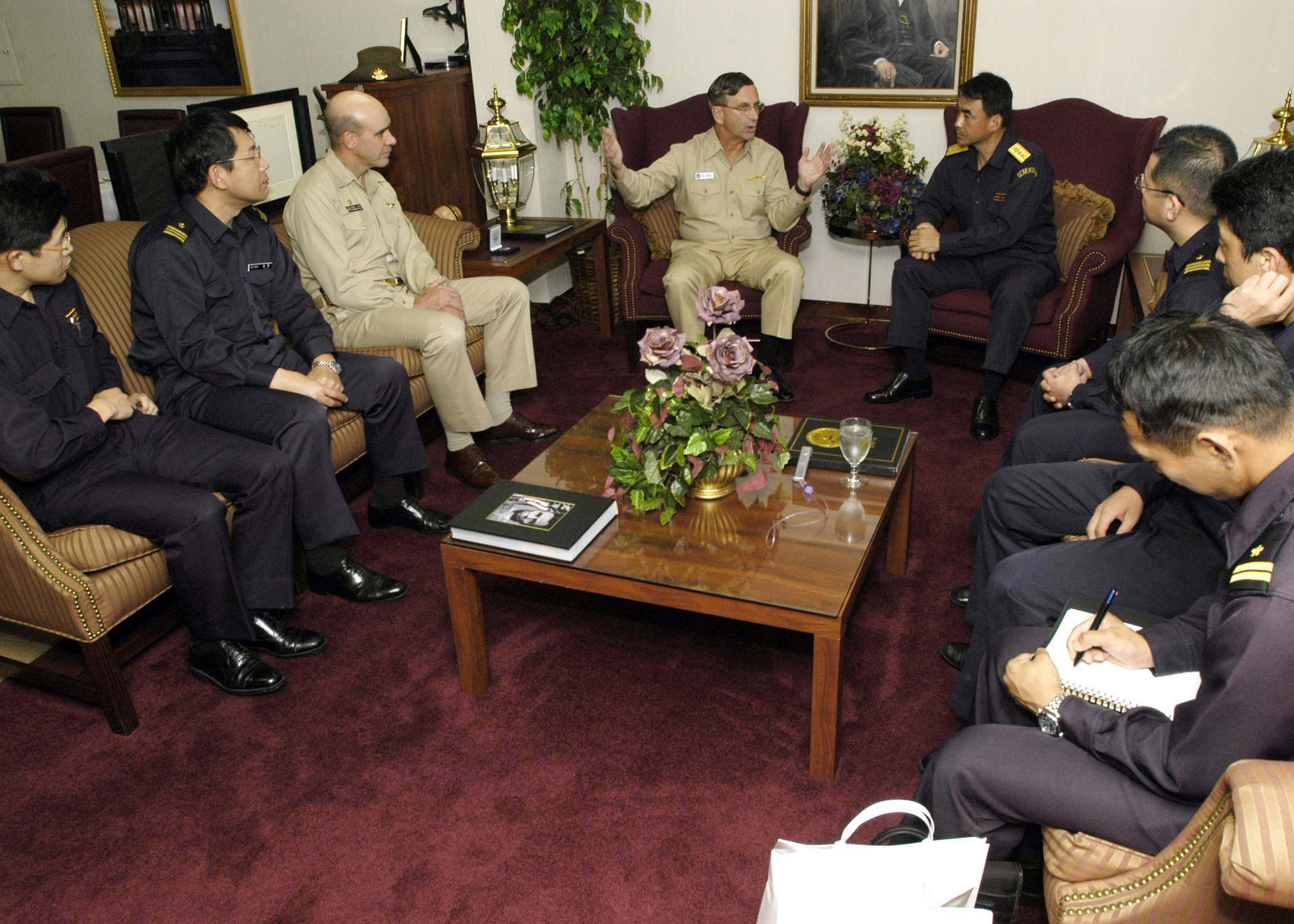 Indian Ocean (Jan. 25, 2005) - Rear Adm. Sasaki and his staff from the Japanese Maritime Self Defense Force talk with Commander Carrier Strike Group Nine (CSG-9), Rear Adm. Douglas Crowder and Commanding Officer of USS Abraham Lincoln (CVN 72), Capt. Kendall L. Card about the joint relief efforts in Indonesia. CSG-9 is supporting Operation Unified Assistance, the humanitarian operation effort in the wake of the Tsunami that struck South East Asia. The Abraham Lincoln Carrier Strike Group is currently operating in the Indian Ocean off the waters of Indonesia and Thailand. U.S. Navy photo by Photographer's Mate Airman Patrick M. Bonafede (RELEASED)